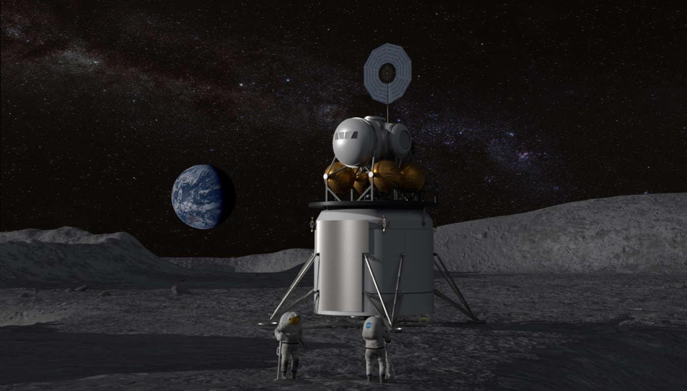 Artist’s concept of a human landing system and its crew on the lunar surface with Earth near the horizon.